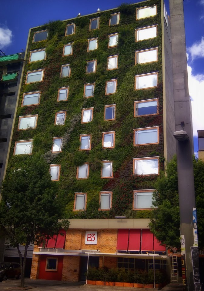 This is B3 Hotel in Bogota, one of the biggest vertical gardens in the world